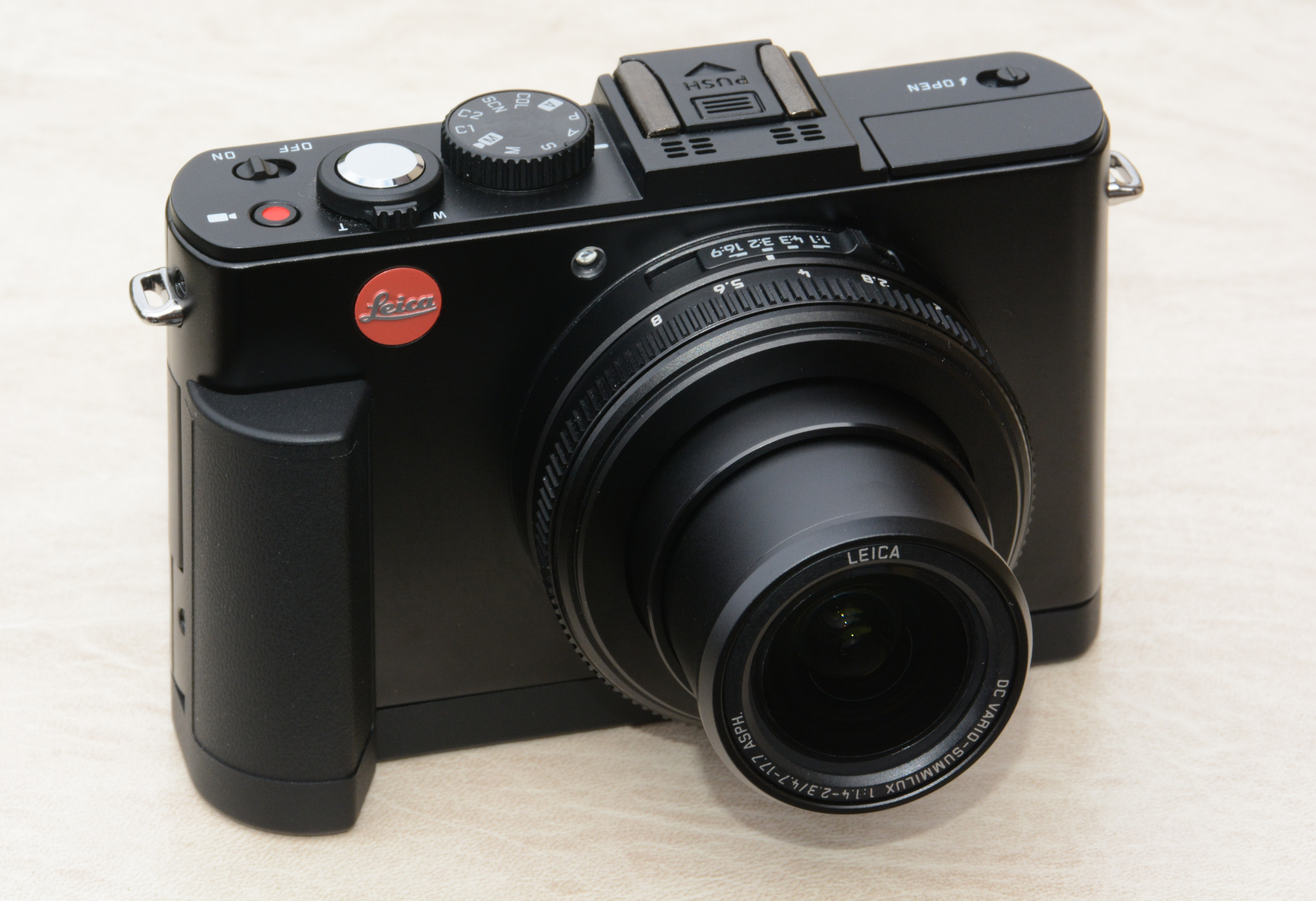 Leica D-Lux 6 (2012)